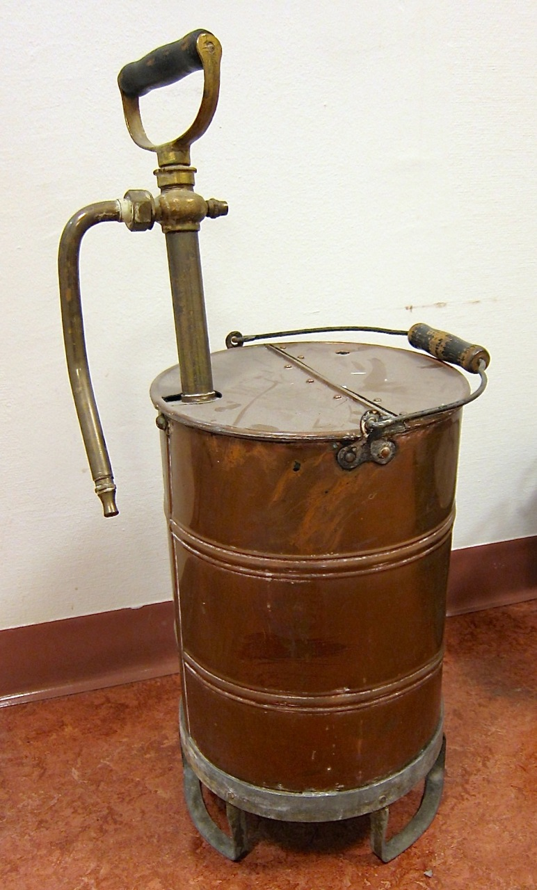 Hand Spray of copper.